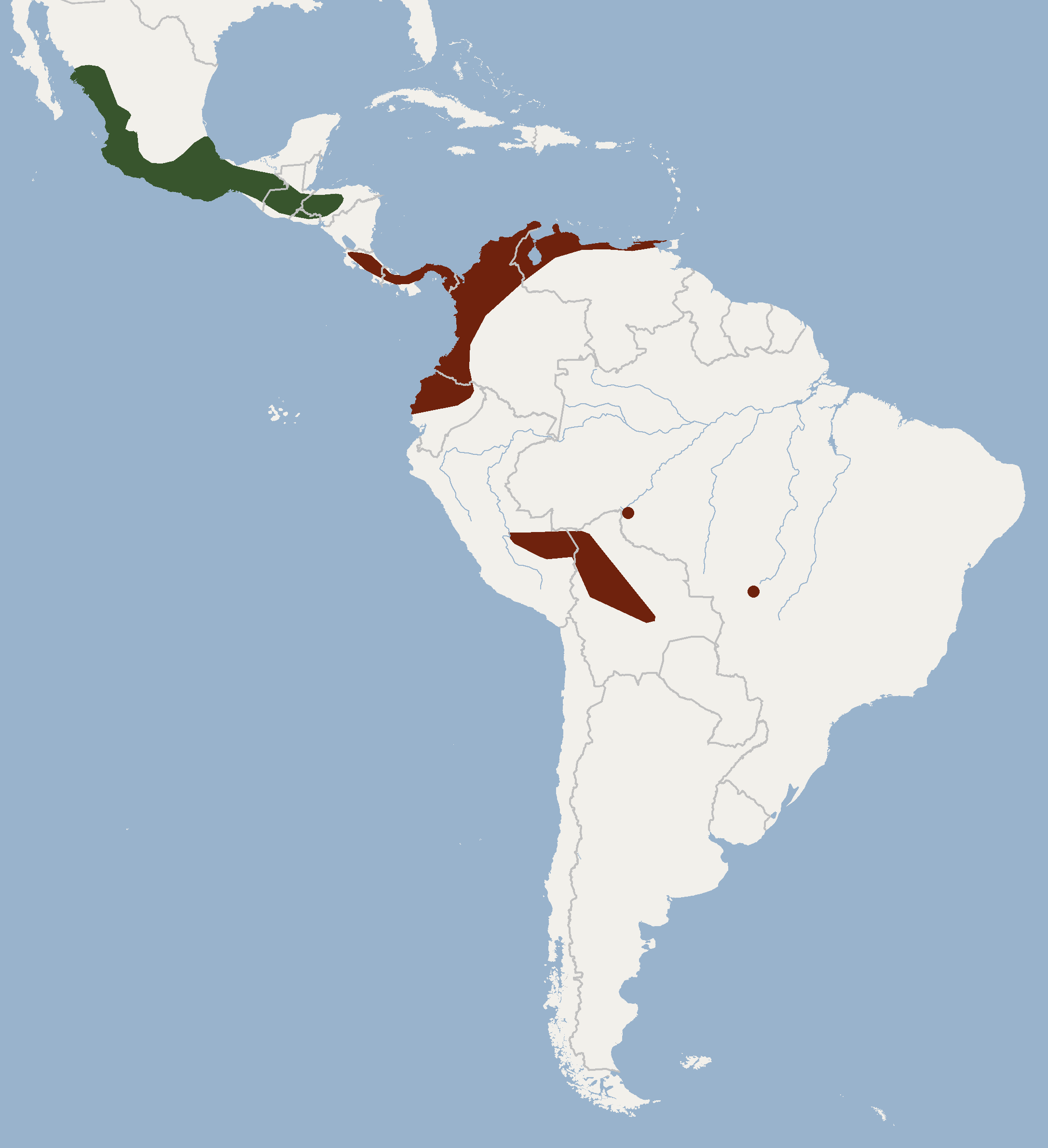 According to Gardner, 2007, Reid 2008, Wilson, 2008.